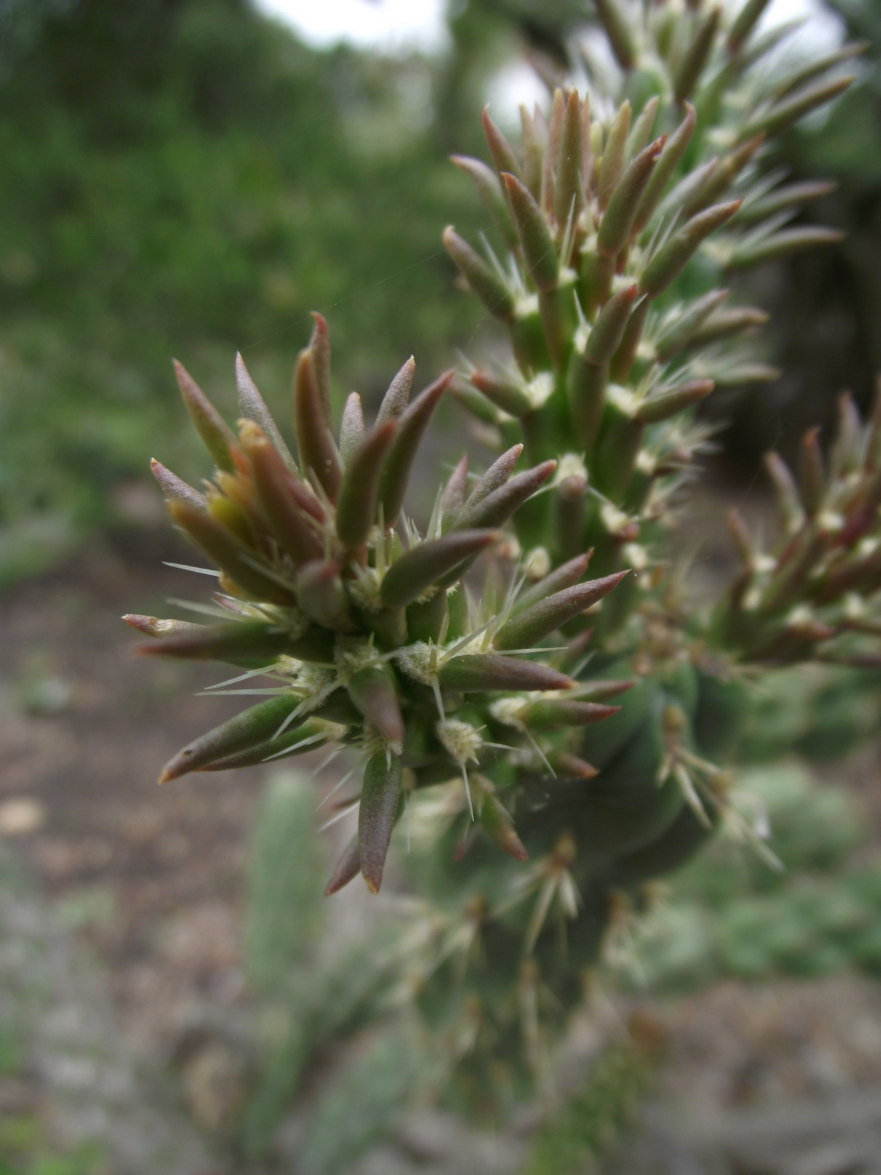 Cylindropuntia californica identified by sign as Opuntia parryi at Santa Barbara Botanic Garden, Santa Barbara, California, USA